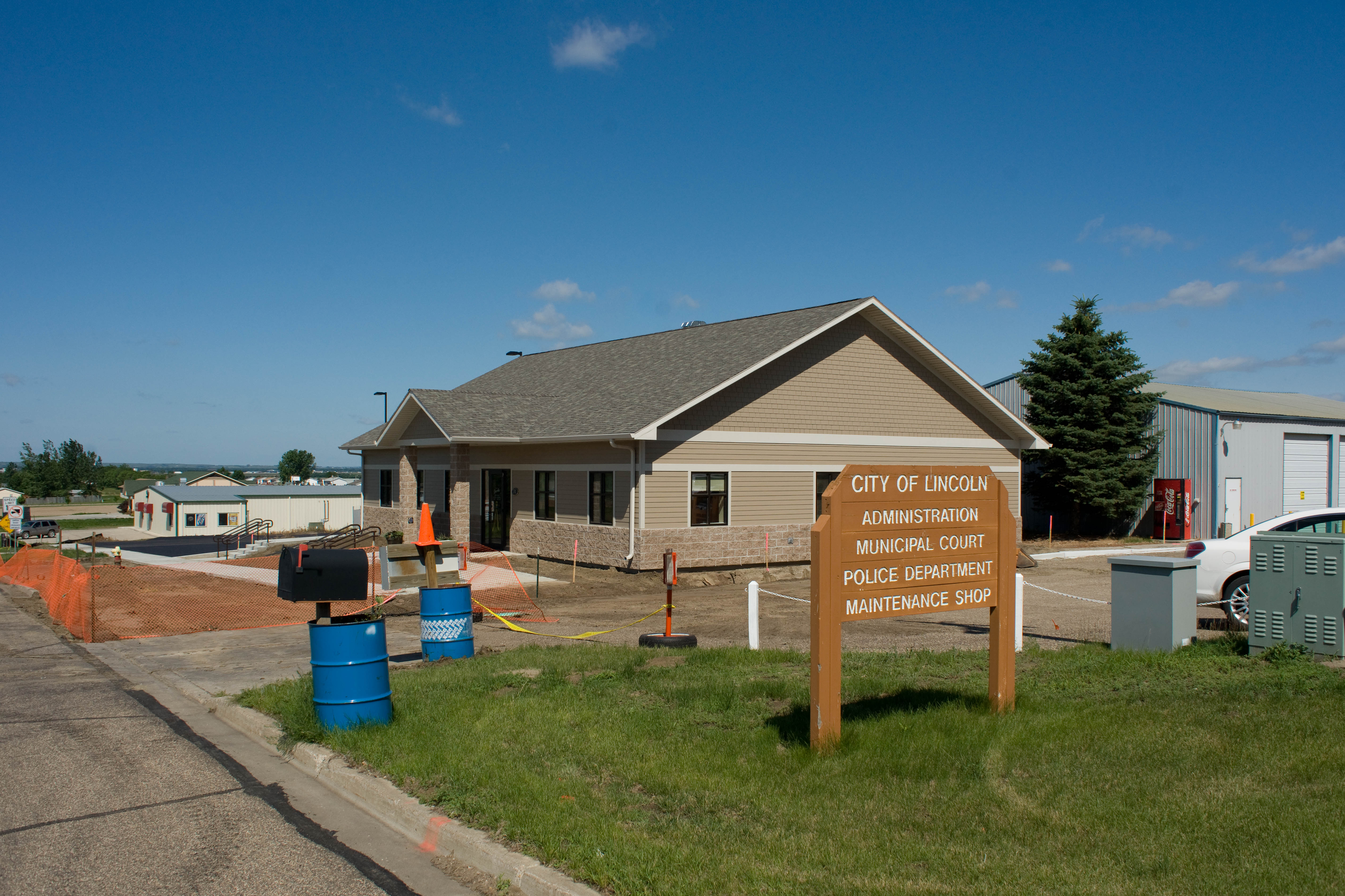 Administrative, Municipal Court, Police Department, and Maintenance Shop in Lincoln, North Dakota